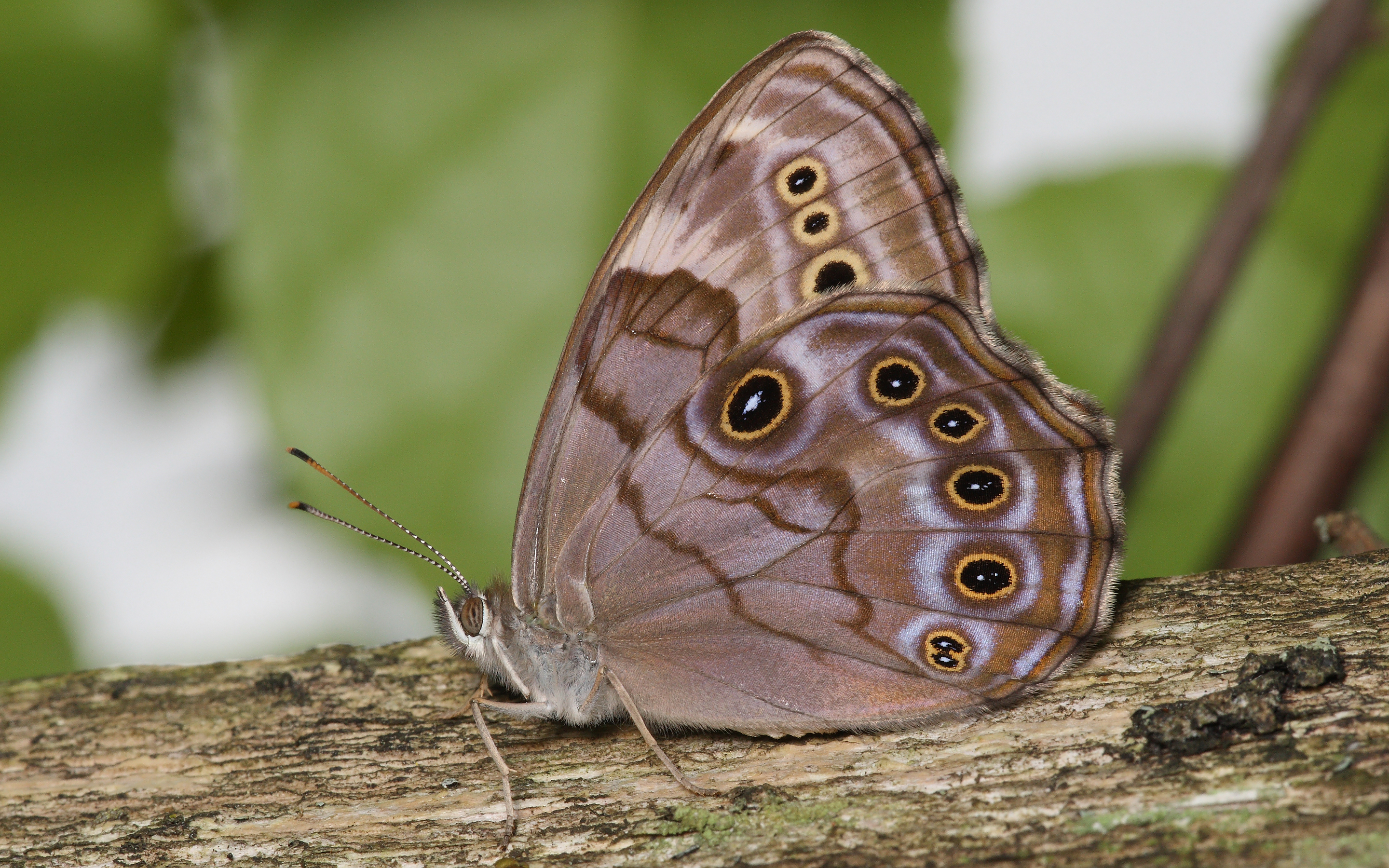 Northern Pearly-eye -- near Dyers Bay, Ontario, Canada -- 2008 July